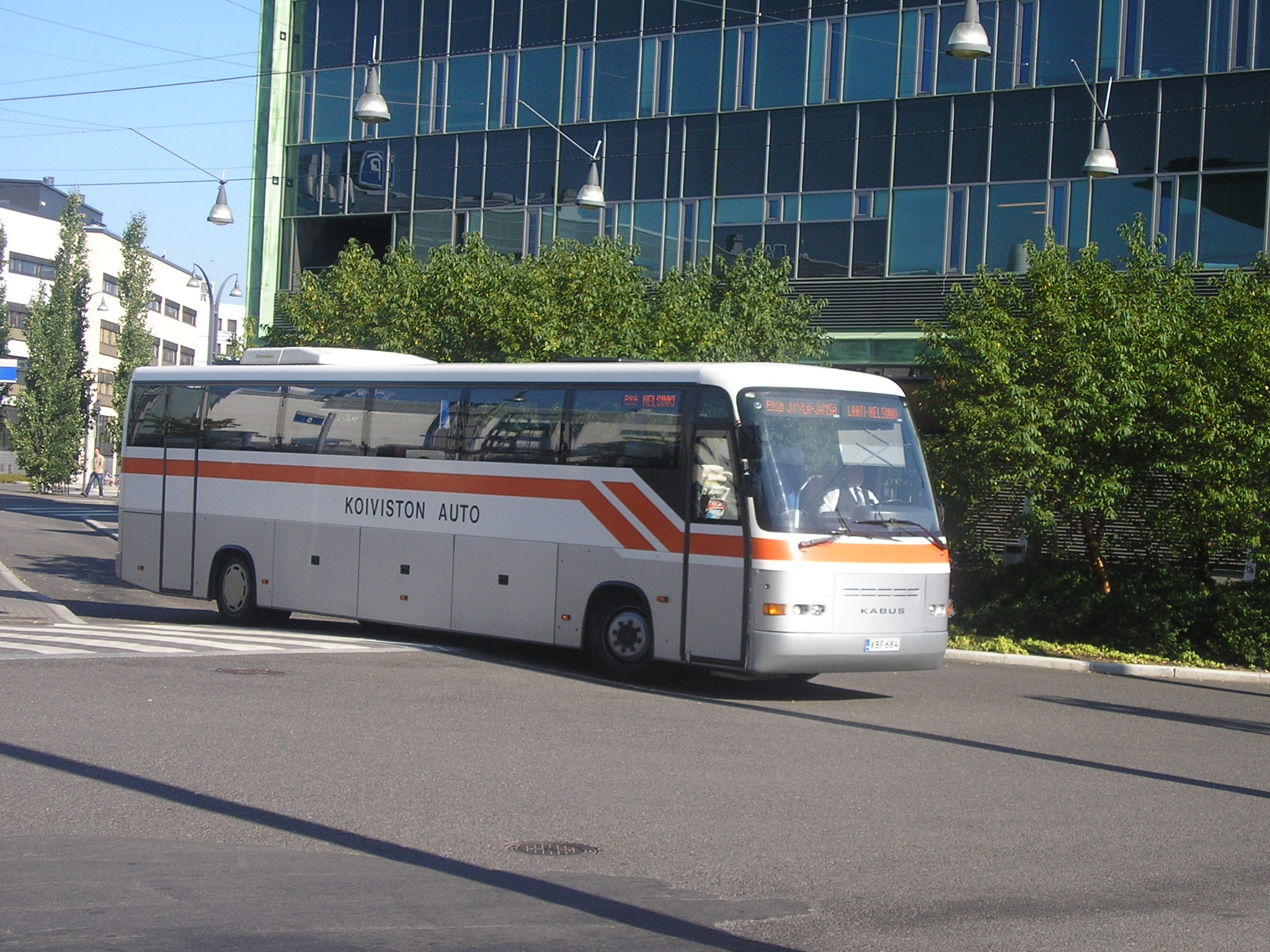 Koiviston Auto Kabus TC-6Z3/7300 bus (#284) in Jyväskylä, Finland. Built 2004.